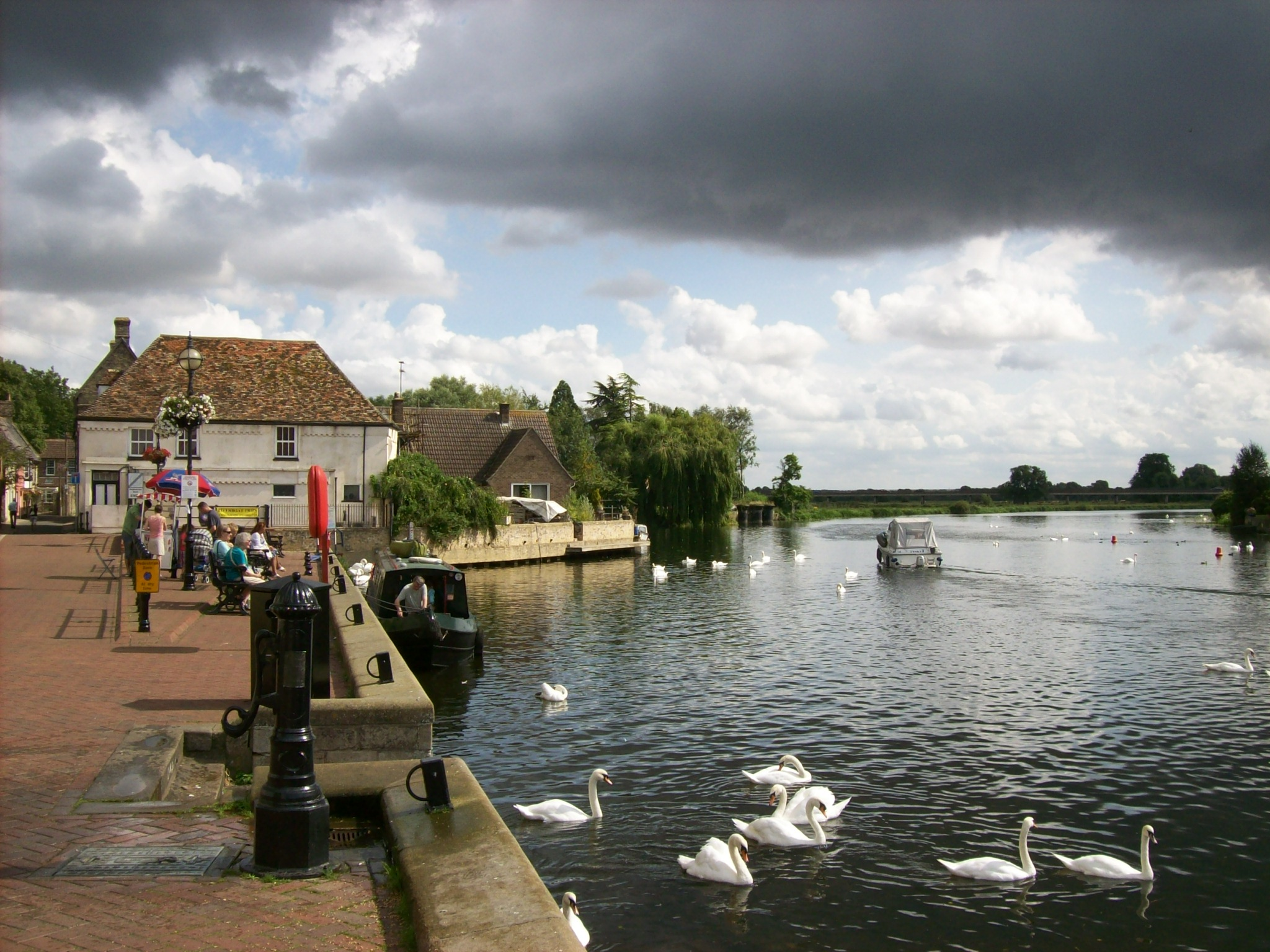 The Quay, St Ives, Cambridgeshire